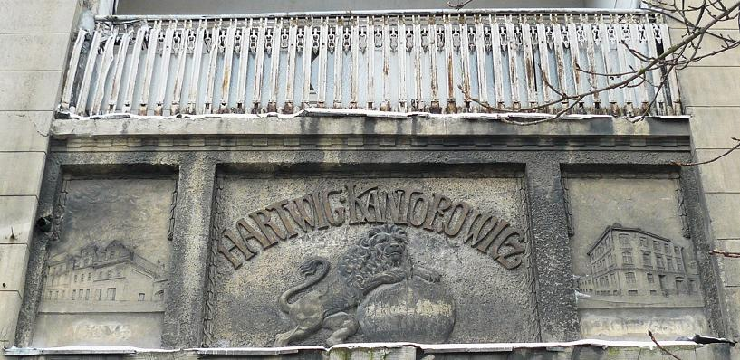 Ex Hartwig Kantorowicz Vodka Manufactury in Poznan, Grochowe Laki Street.